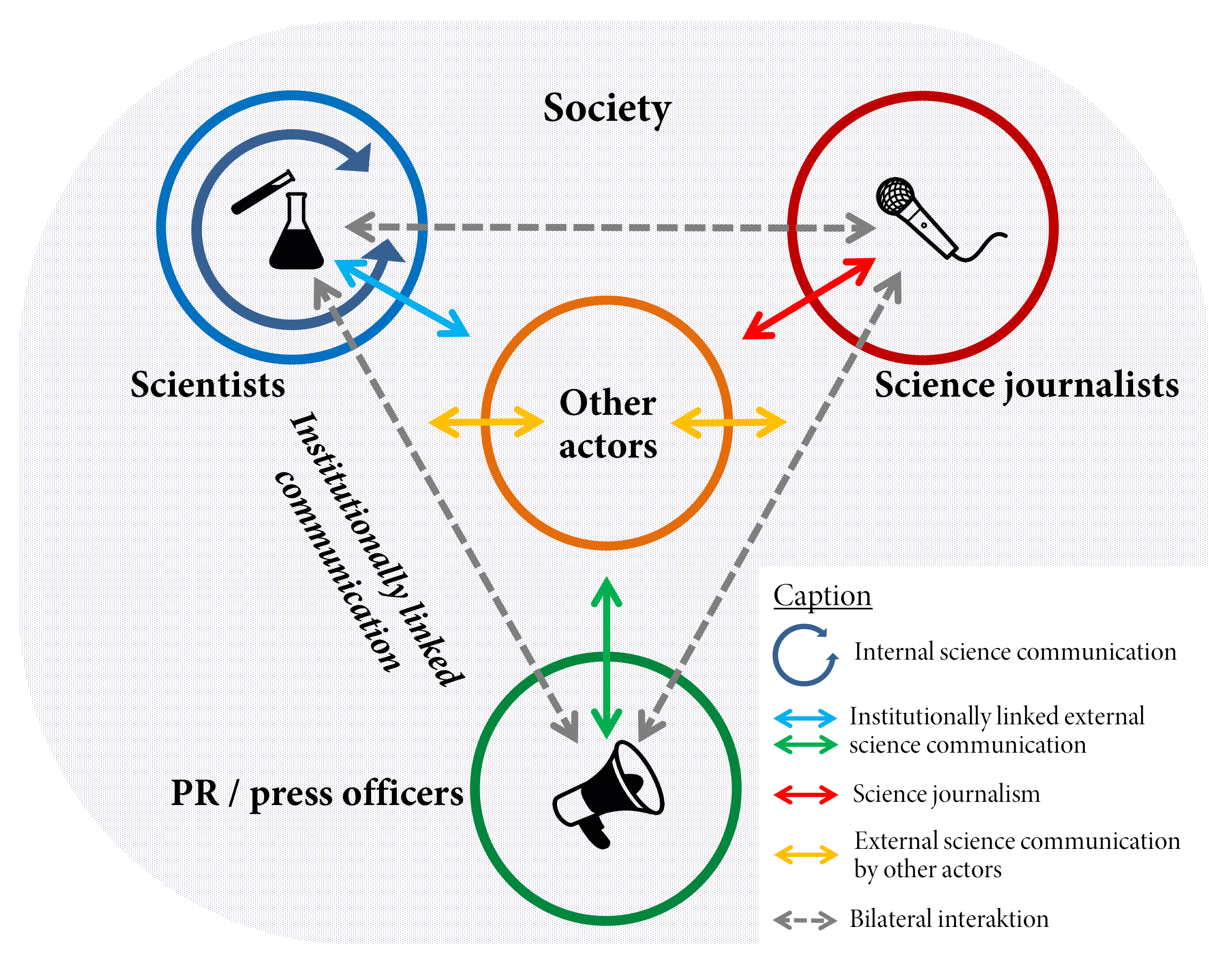 Schematic overview of the field and the actors of science communication according to Carsten Könneker